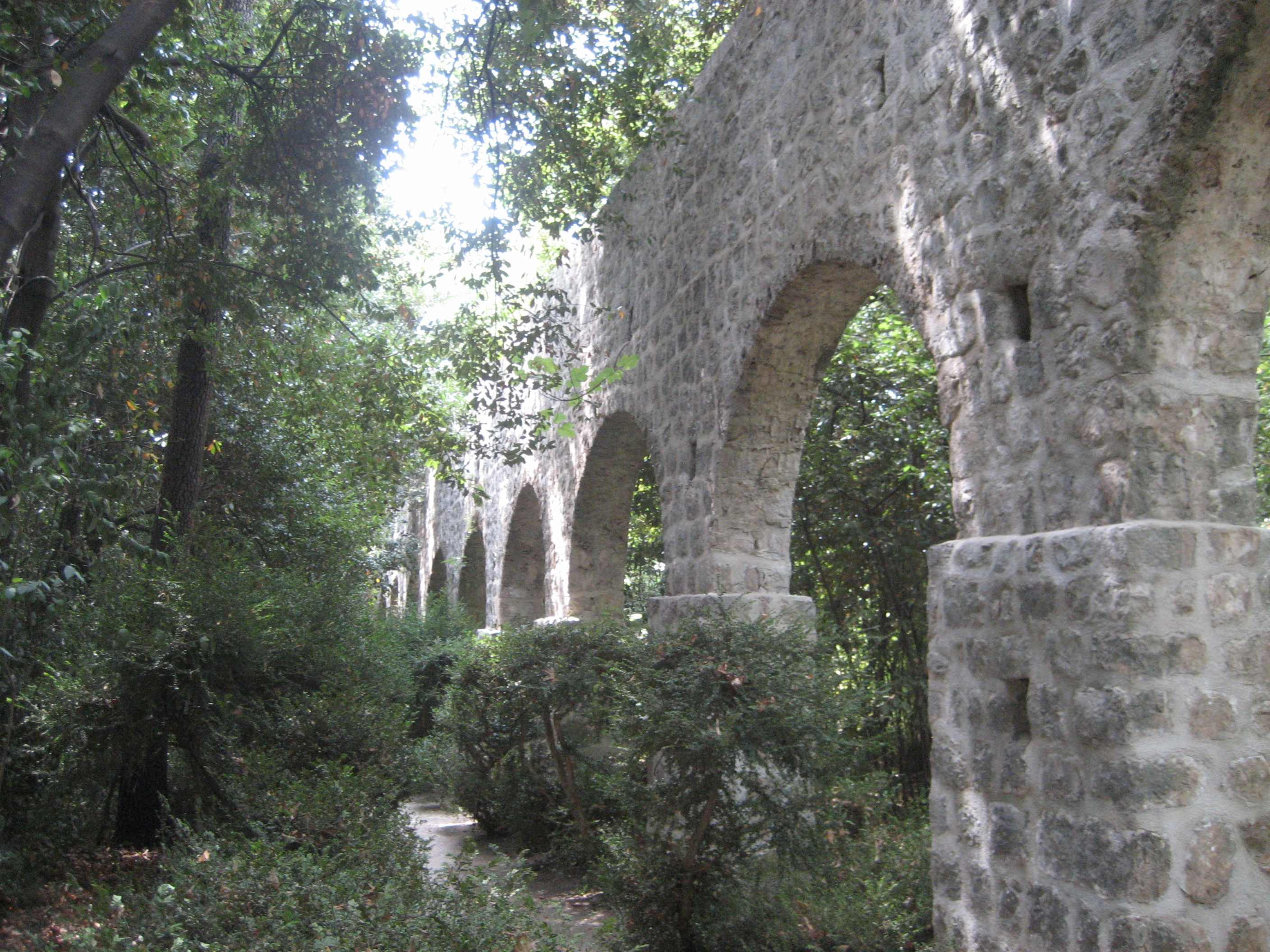 Aqueduct, Arboretum Trsteno, Croatia